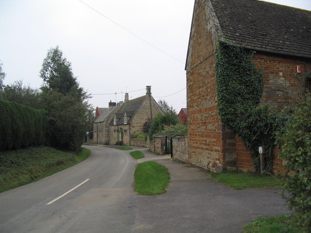 Entrance to Thorpe by Water A cul-de-sac hamlet with fine stone houses on the north bank of the River Welland